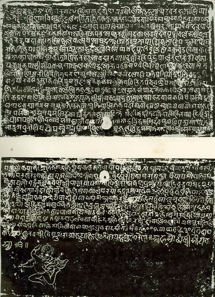 Siyaka's Harsola coperplate of 1005, grant A